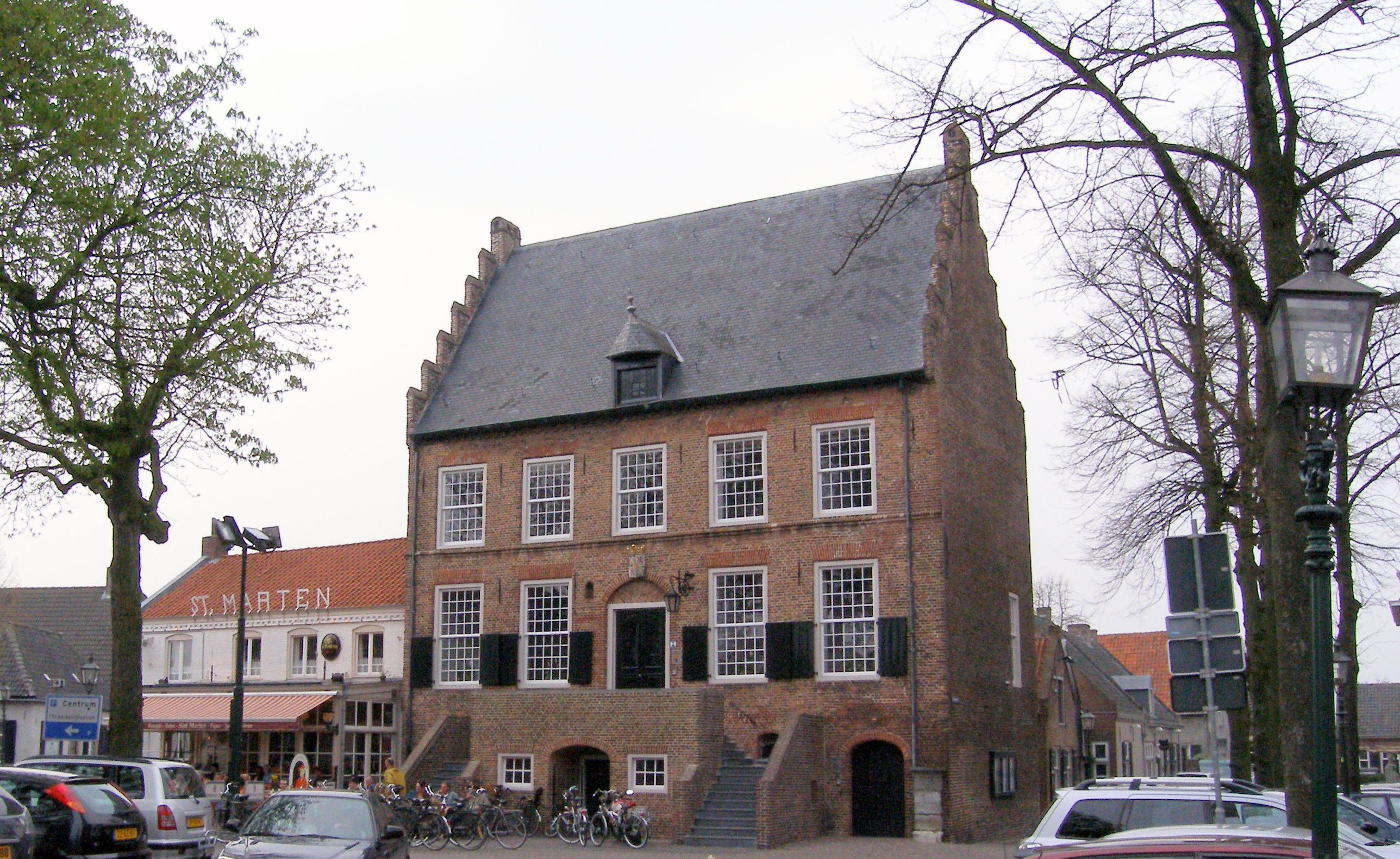 City hall in Oirschot, the Netherlands